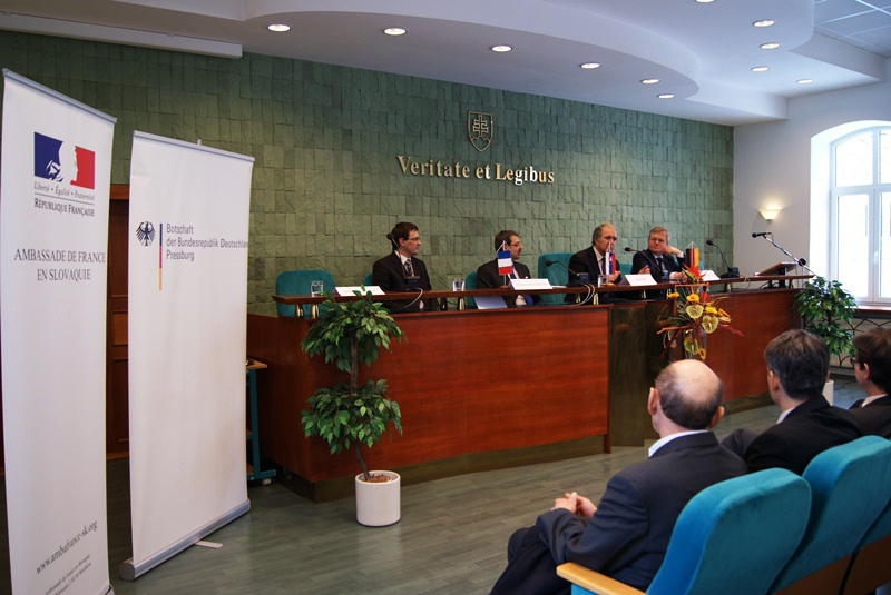 Conference at the Matej Bel School of Political Sciences and international relations